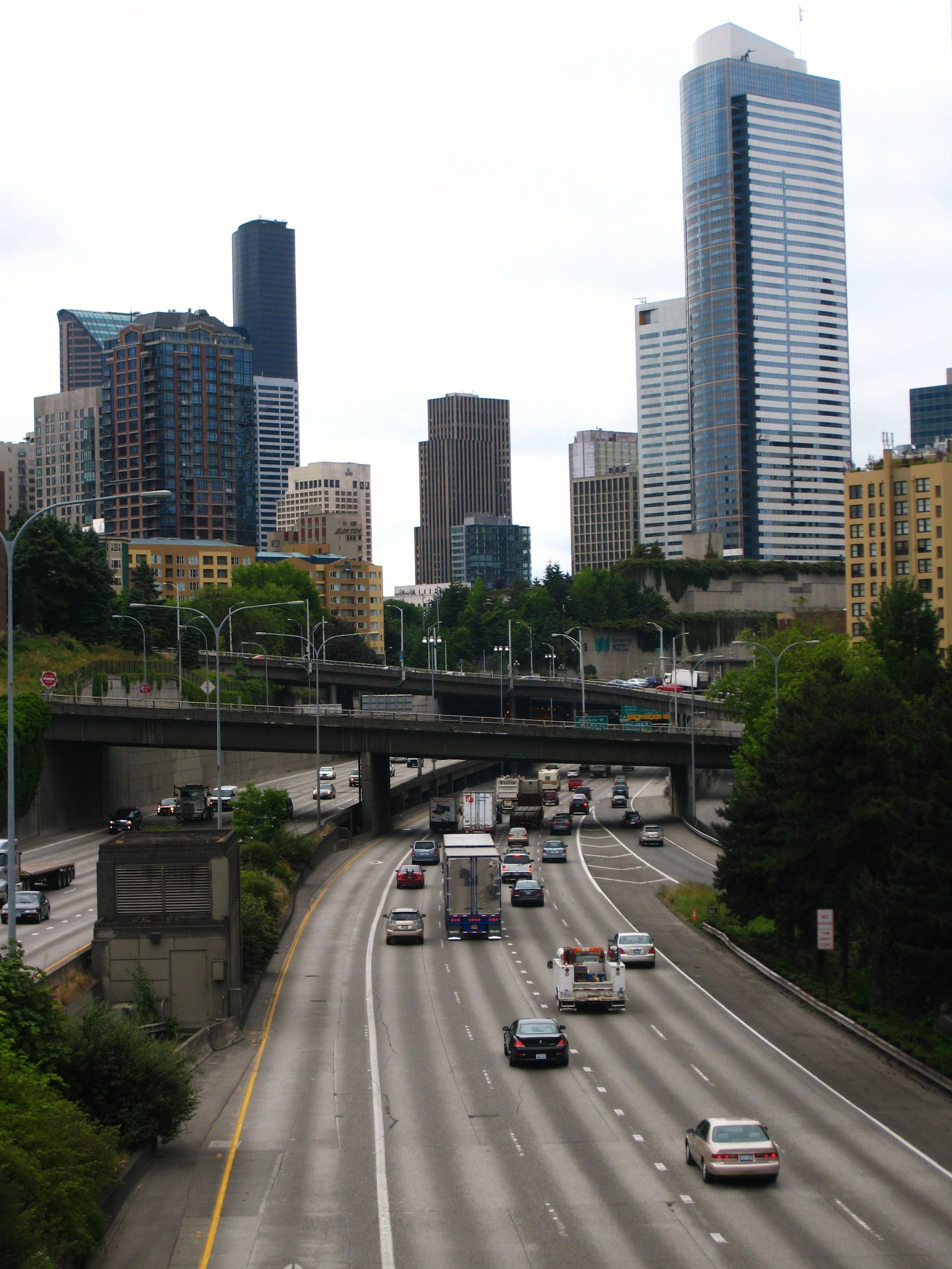 View of interstate 5 (I-5) heading South, photographed from Denny Bridge, Seattle WA, USA. In the background are Olive Way and Pine Street bridges and the Washington State Convention and Trade Center (on 7th block and Pike Street). The tallest building is Two Union Square.